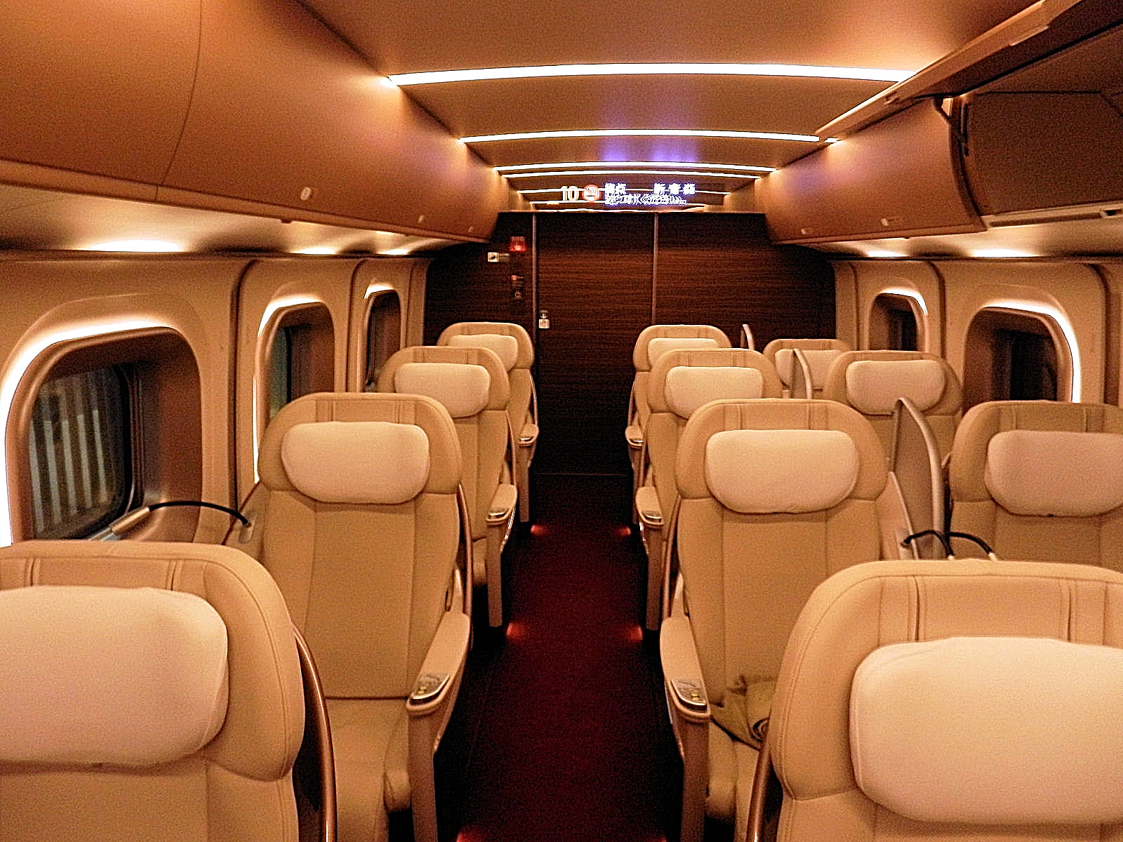 Interior of JR East E5 series shinkansen "Gran Class" car